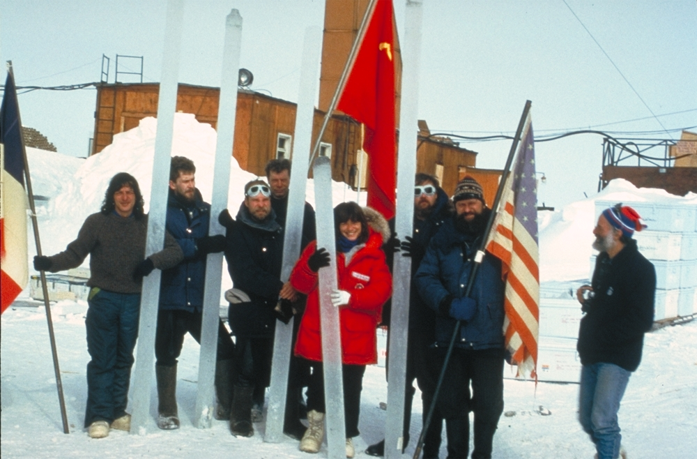 French, Soviet, and American scientists in the Vostok team photo with unprocessed ice cores. Cores coming out of the barrel are generally 4-6m long and are cut to 1m sections. The pictured ice columns are unprocessed cores. White containers in the background are used for transporting 1m sections. Source caption identifies this as being from GISP2. This actually is at Vostok.